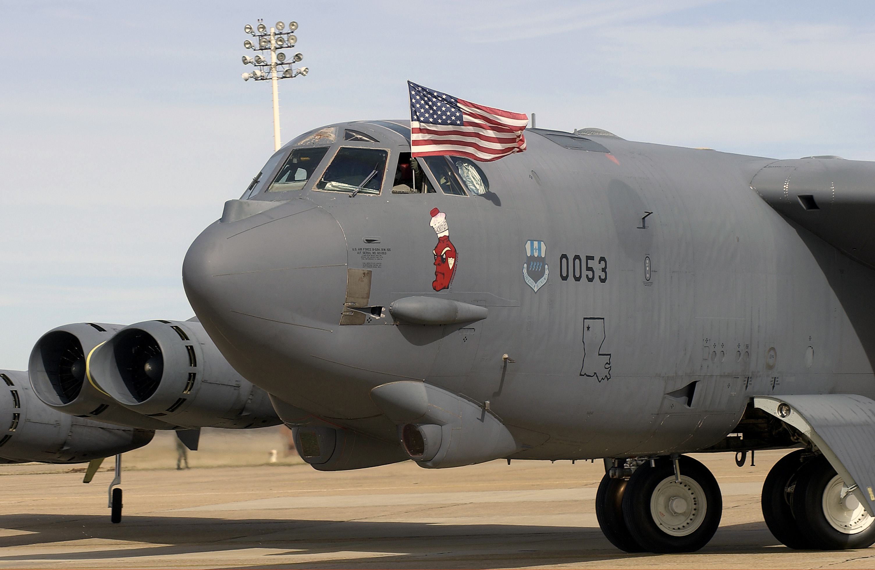 B-52H bomber tail number 60-053 from the 2d Bomb Wing, Barksdale Air Force Base, La. proudly displays the American flag as it taxii's out on a local training mission. Aircraft 60-053, call sign Raider 21, went down off the coast of Guam July 21, 2008. All six crew members were lost.